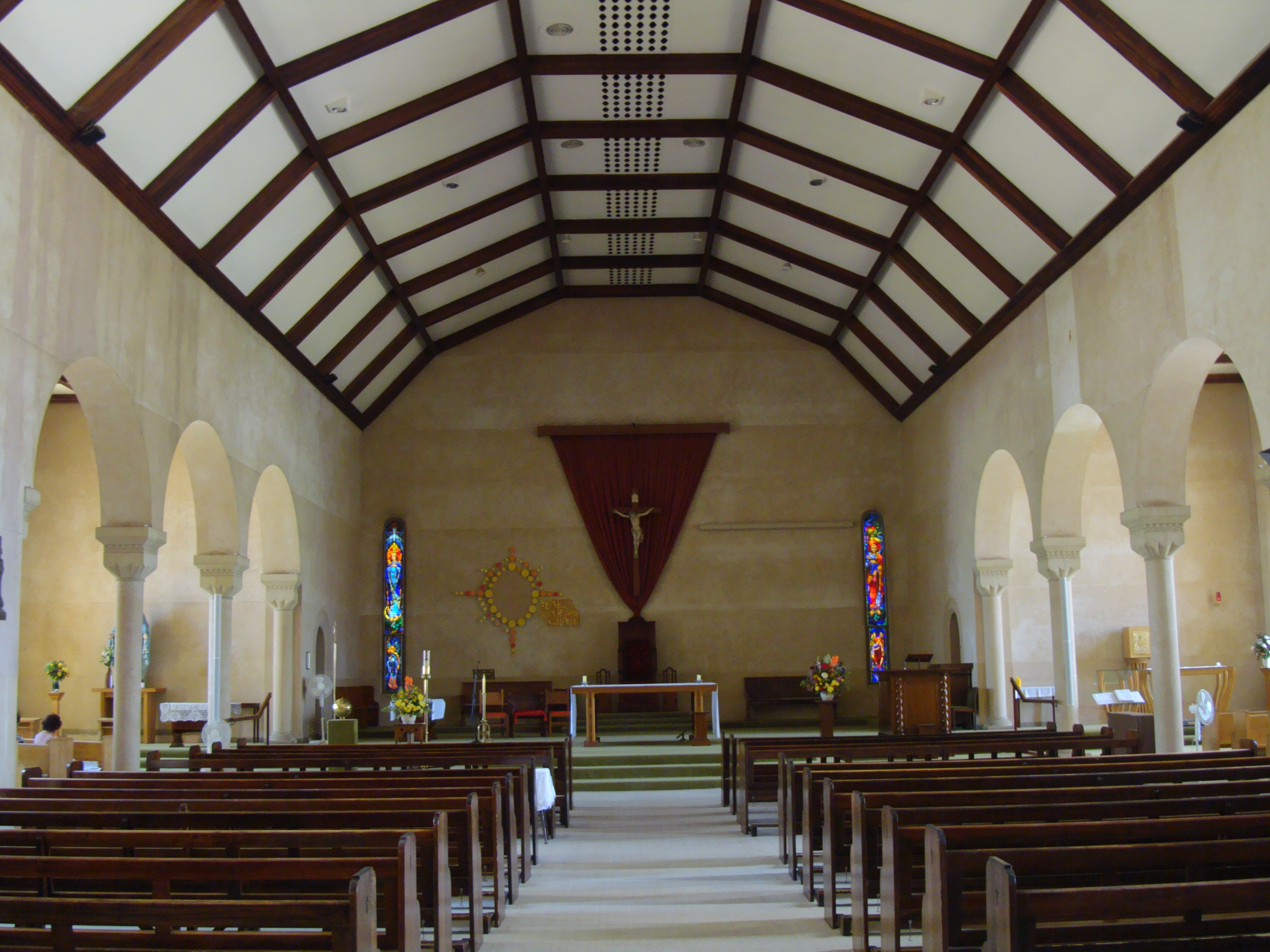 Photograph of the interior of St Mark's Cathedral, Port Pirie, South Australia